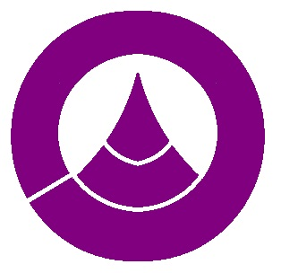 Showa Yamanashi chapter